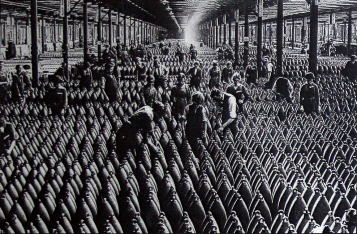 Belgian factory of mortar ammunition, end of 19. century